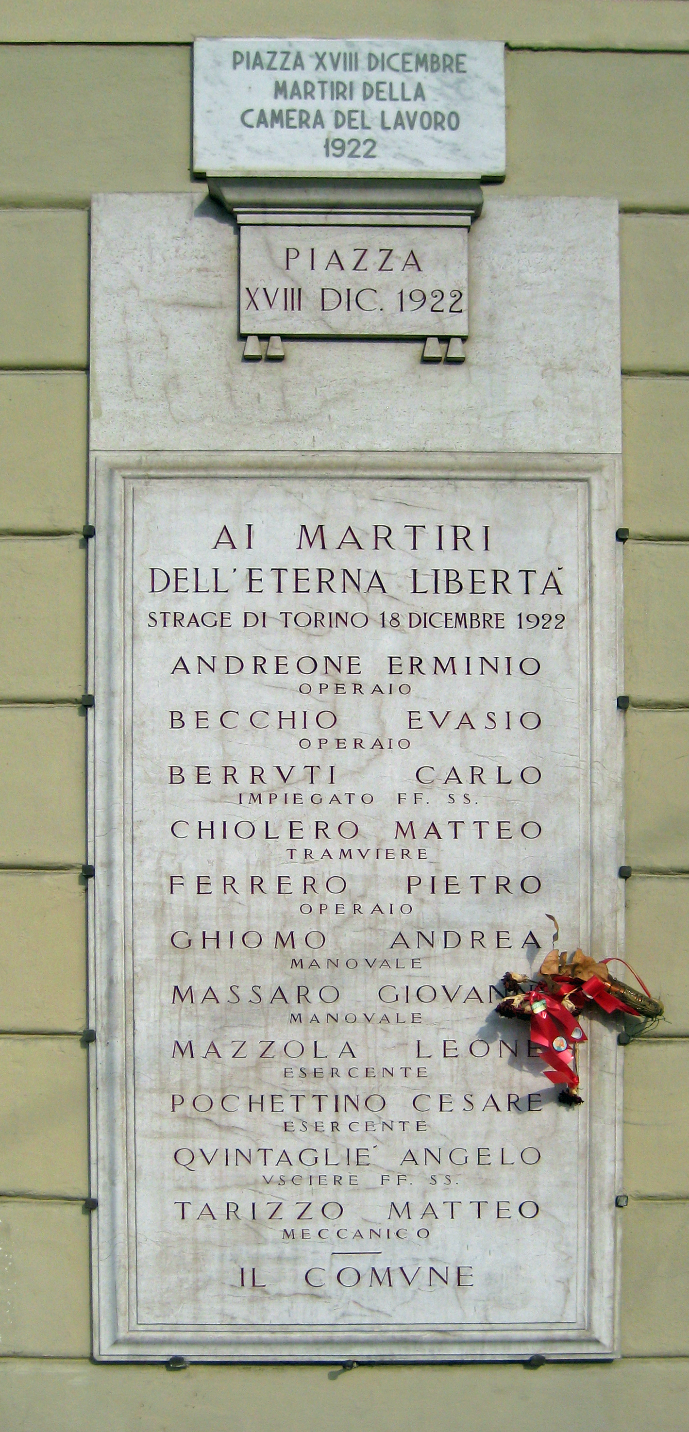 This picture shows the plaque with the list of people killed by fascist in Turin on 18 December 1922.